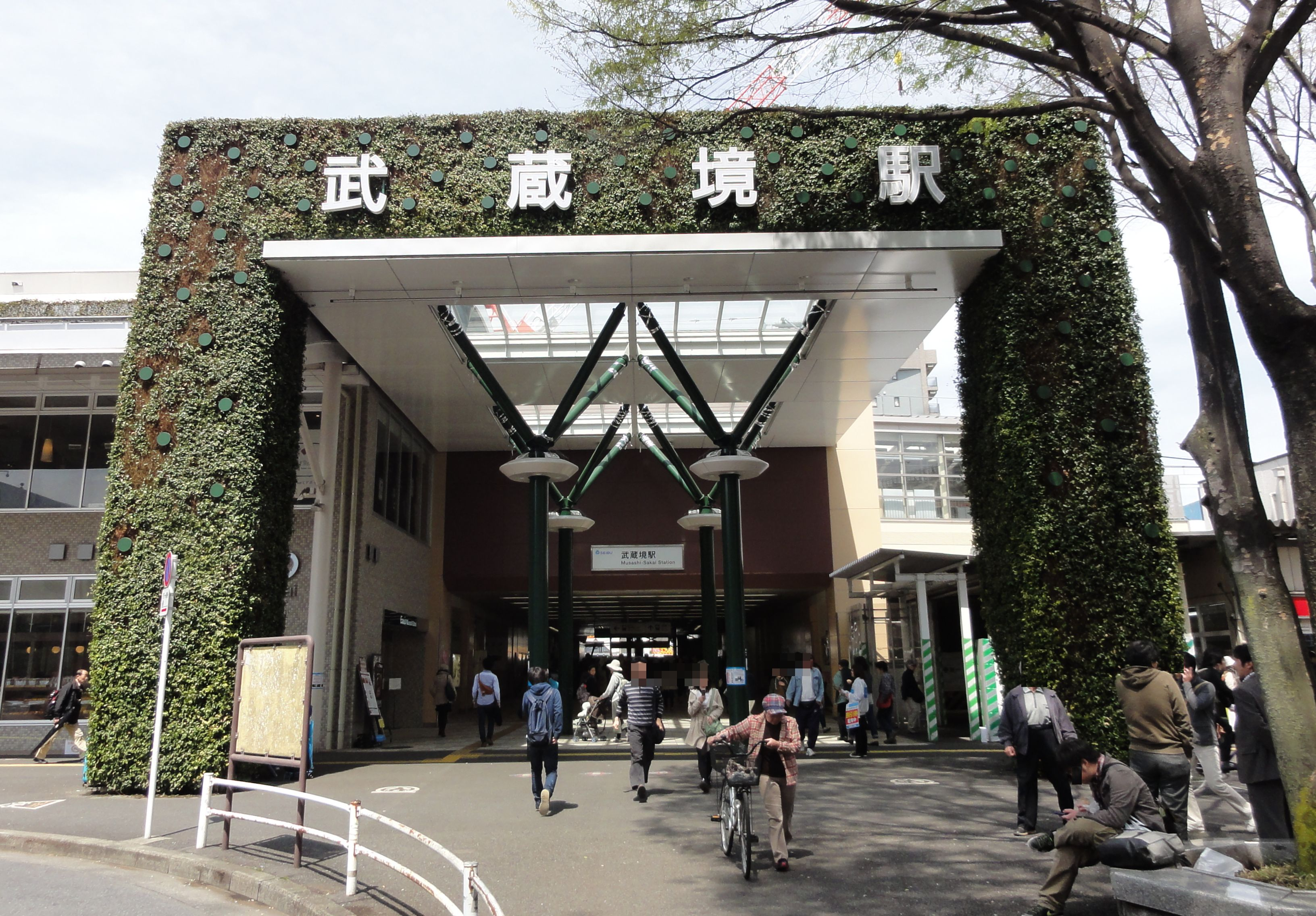 South exit of Musashi-Sakai Station